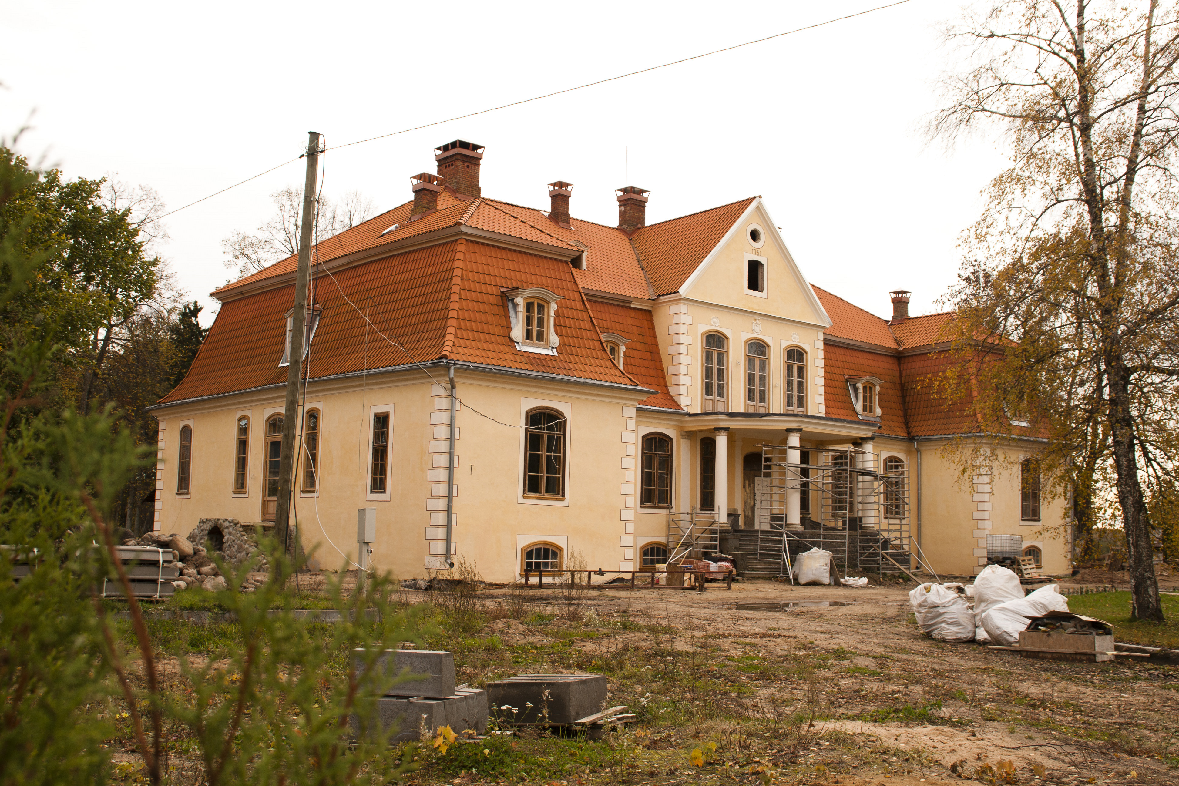 Liepupe ManorLatviešu: Liepupes muižas pils